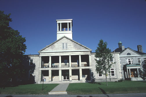 The Kennebec County Courthouse, located at 95 State Street in Augusta, Maine, United States. Built in 1829, it is listed on the National Register of Historic Places.